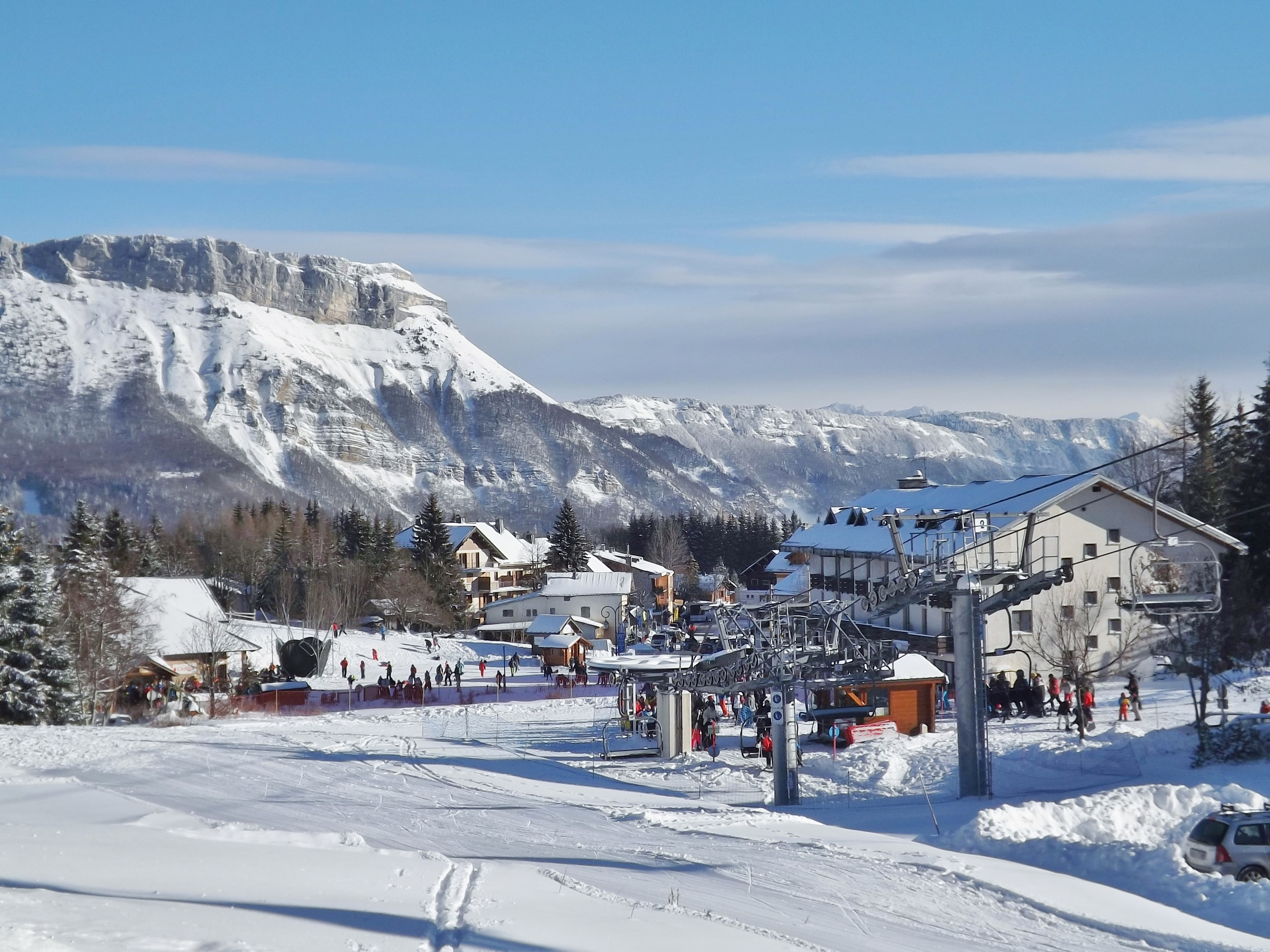 Sight in winter, of La Féclaz ski resort, part of Savoie Grand Domain ski area, in Savoie, France.